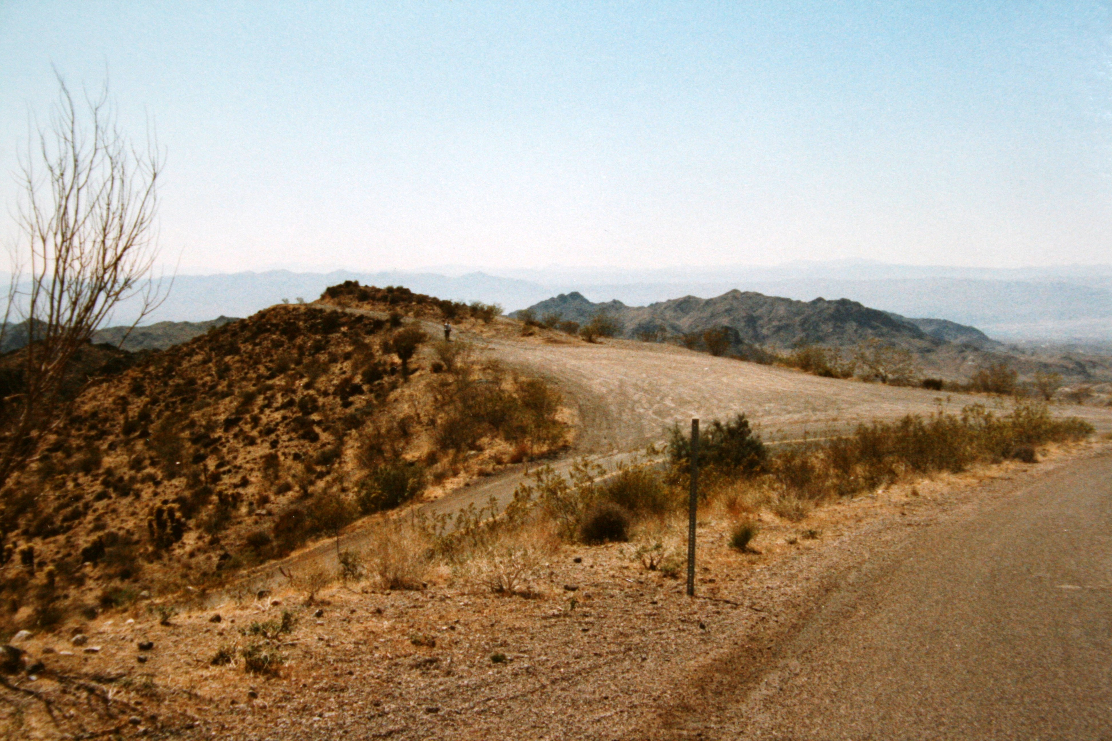 ROUTE 66 Sitgreaves Pass